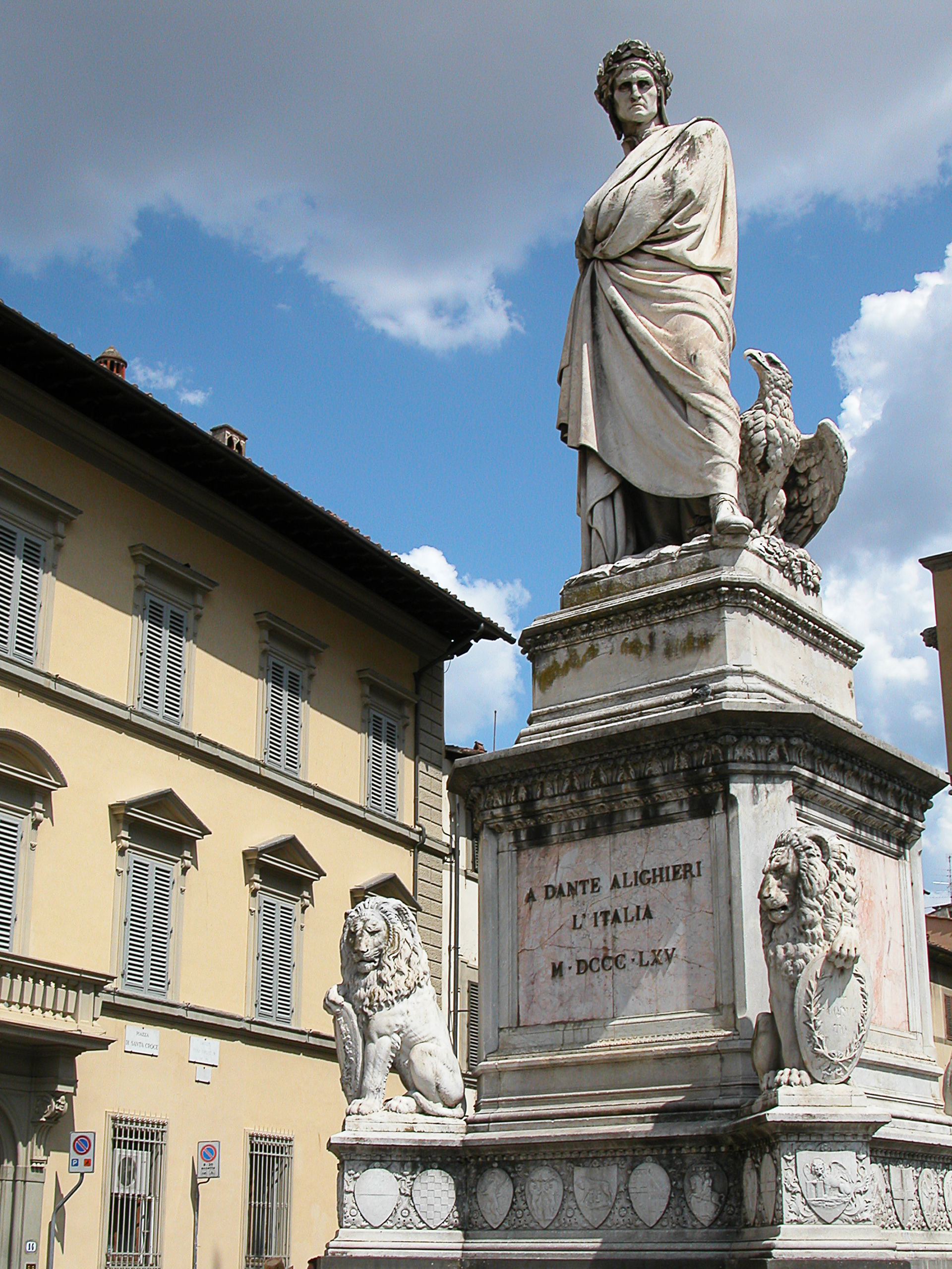 Statue of Dante, near Santa Croce church, Florence